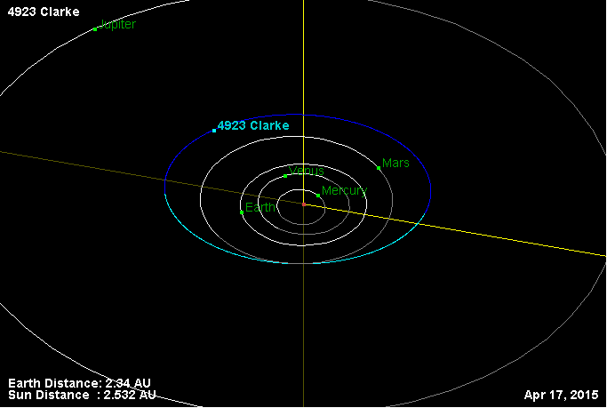 An orbit of 4923 Clarke